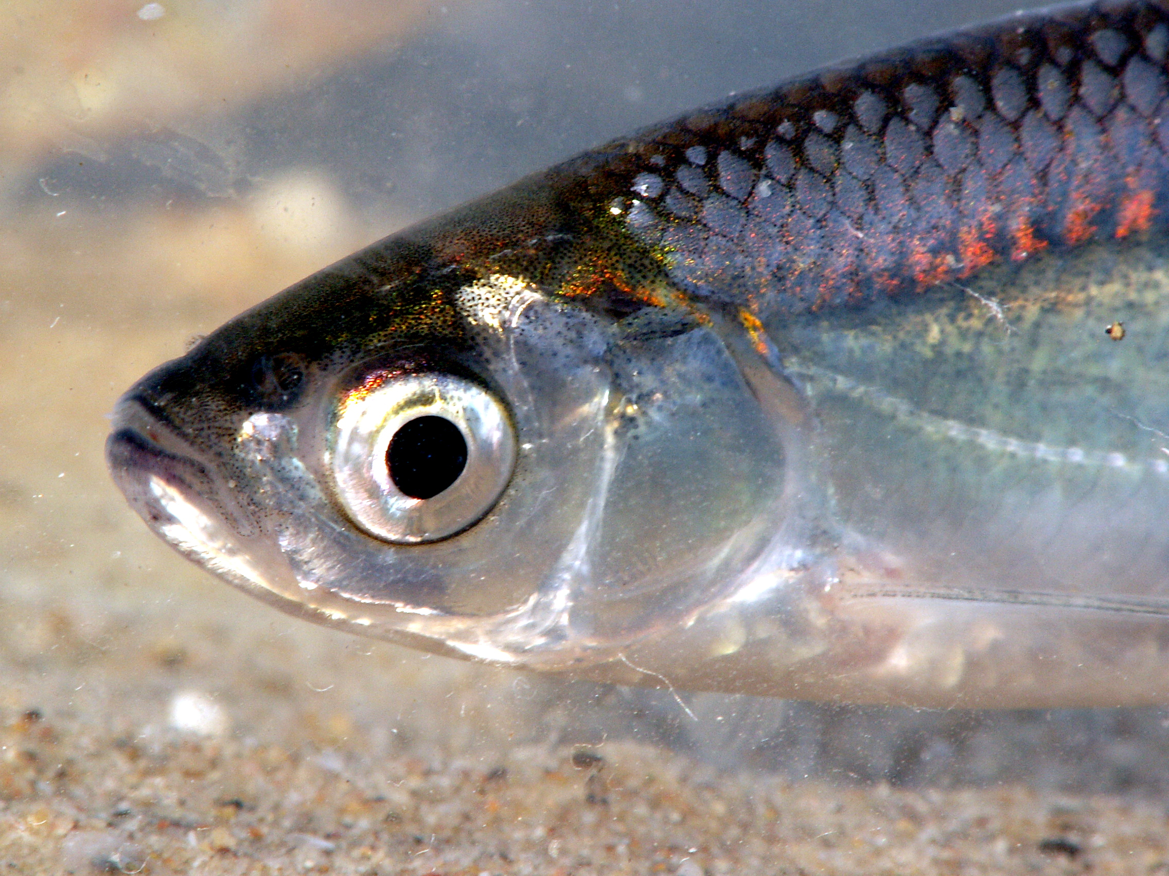 Head of Alburnus alburnus in the scales on the back pearly colours from the guanine crystals are visible.